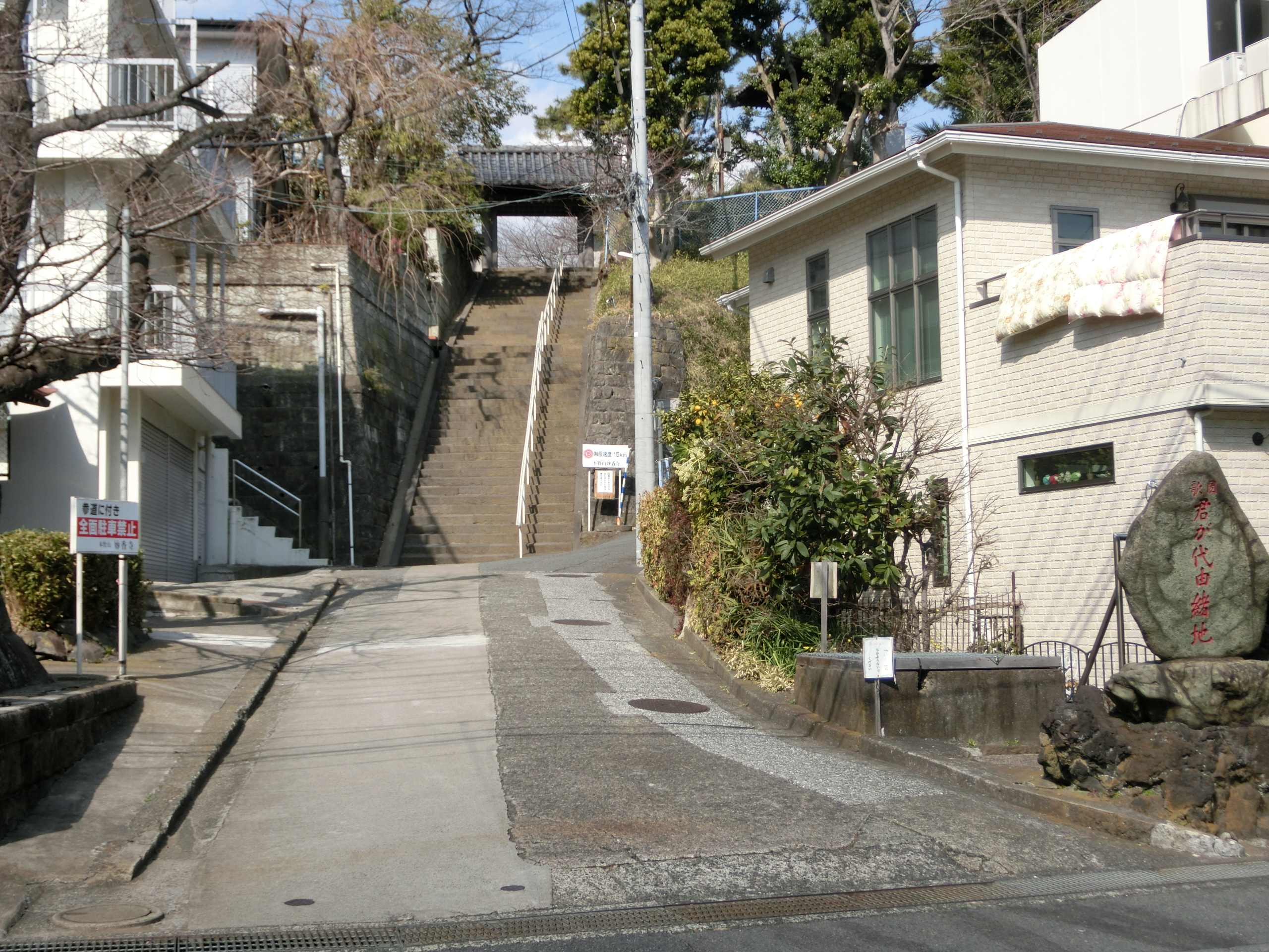 Myoko-ji (Yokohama)